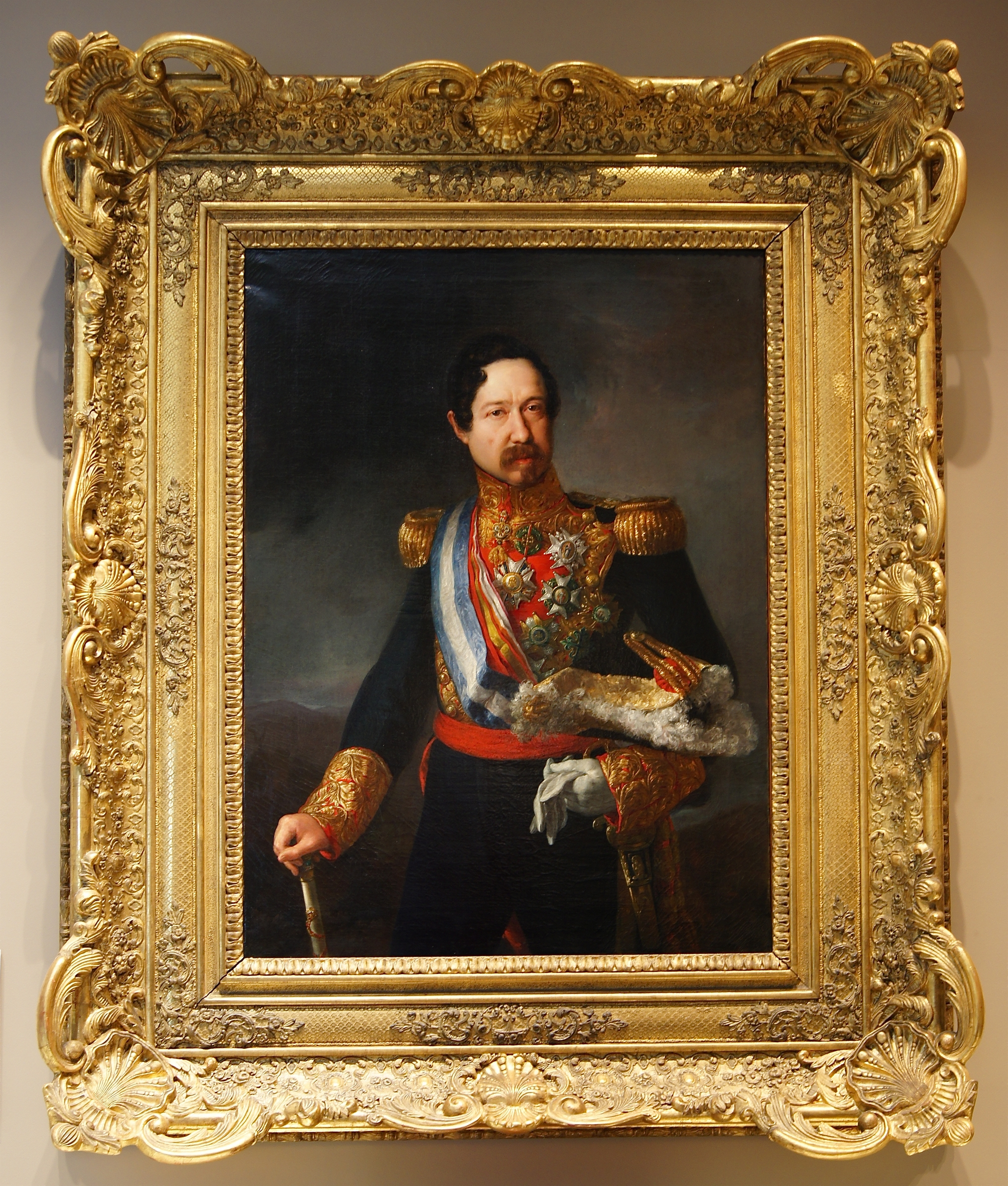 Photo of a painted portrait of General Ramon-Maria Narvaez y Campos (1800-1868), Duke of Valencia, Spanish général and Prime minister (Presidente del Gobierno)